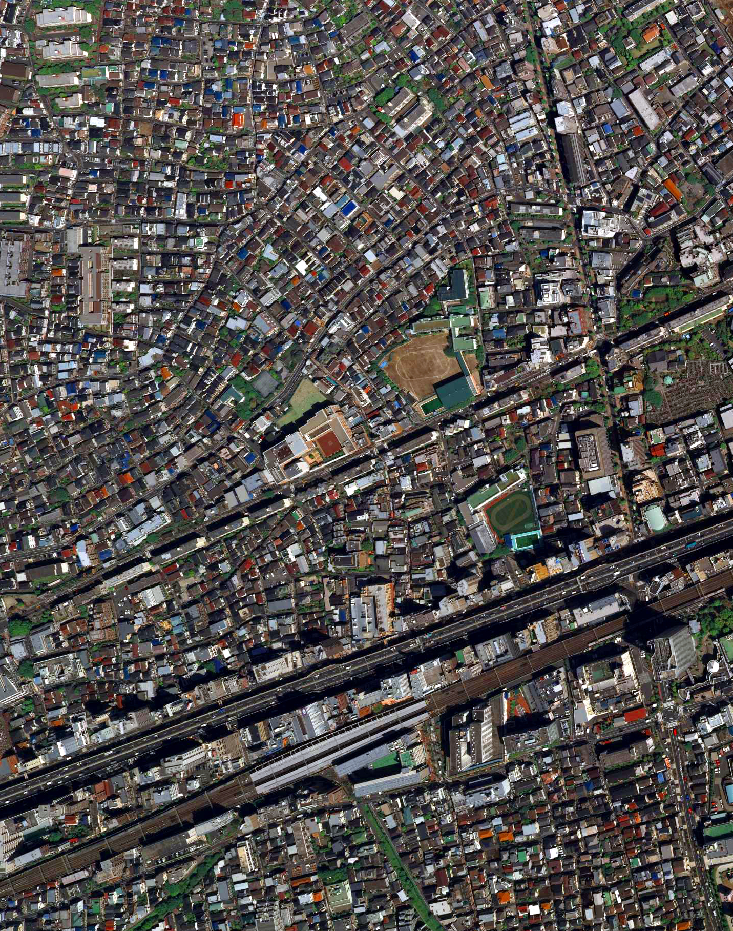 The Geographical Survey Institute took the aerial photograph in Shibuya Ward, Tōkyō Metropolis on April 27, 2009.